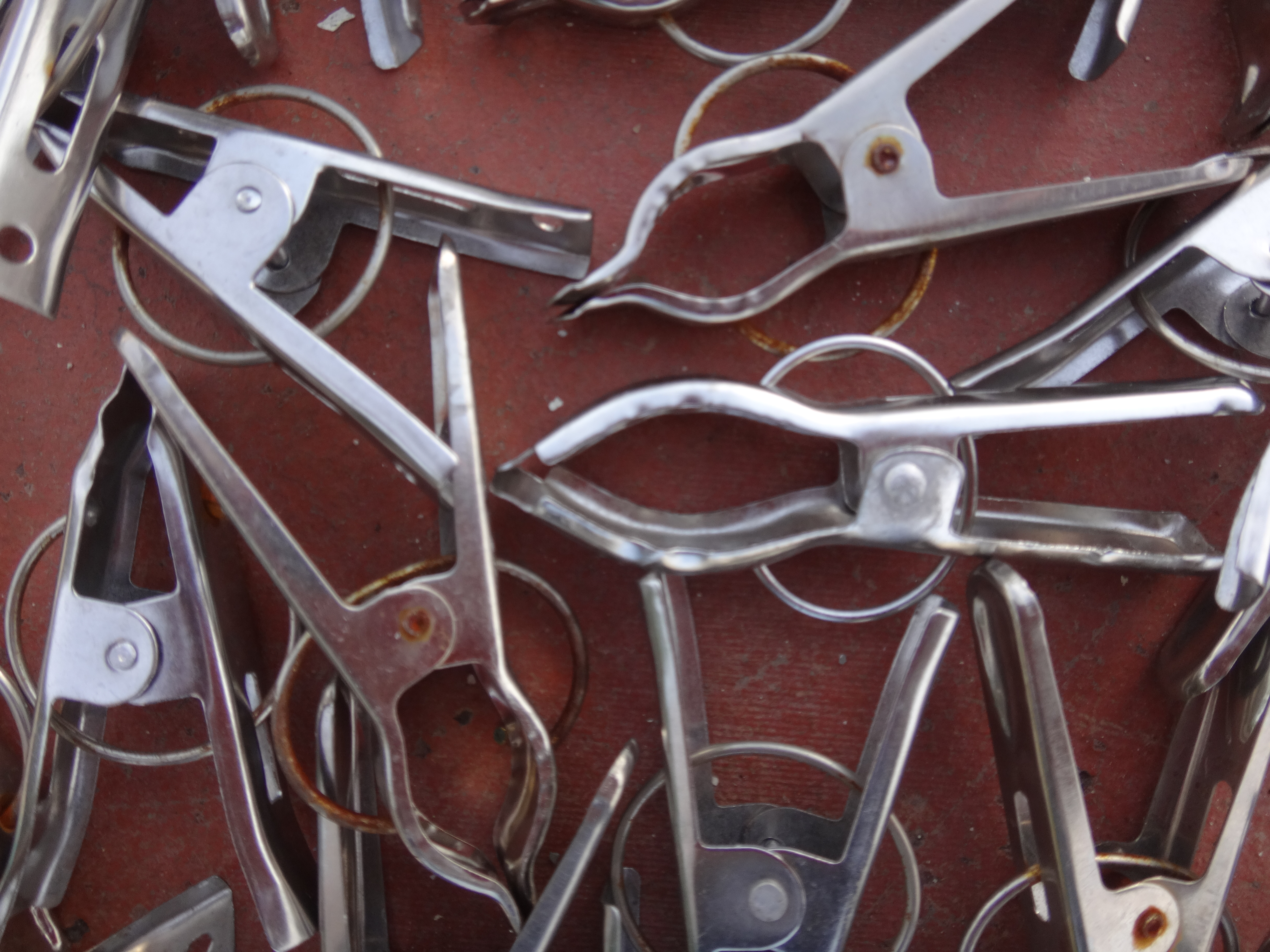 Clips are used to keep the clothes in tact in a place. The clips are available in different sizes and different designs. There are metal clips, wooden clips, aluminum clips and many more. The metal clips last long compared to wooden clips and plastic clips.